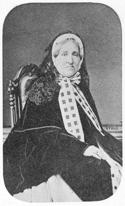 Nobility from Georgia. Illustration from Letopis' Gruzii, edited by B. Esadze, 1913.